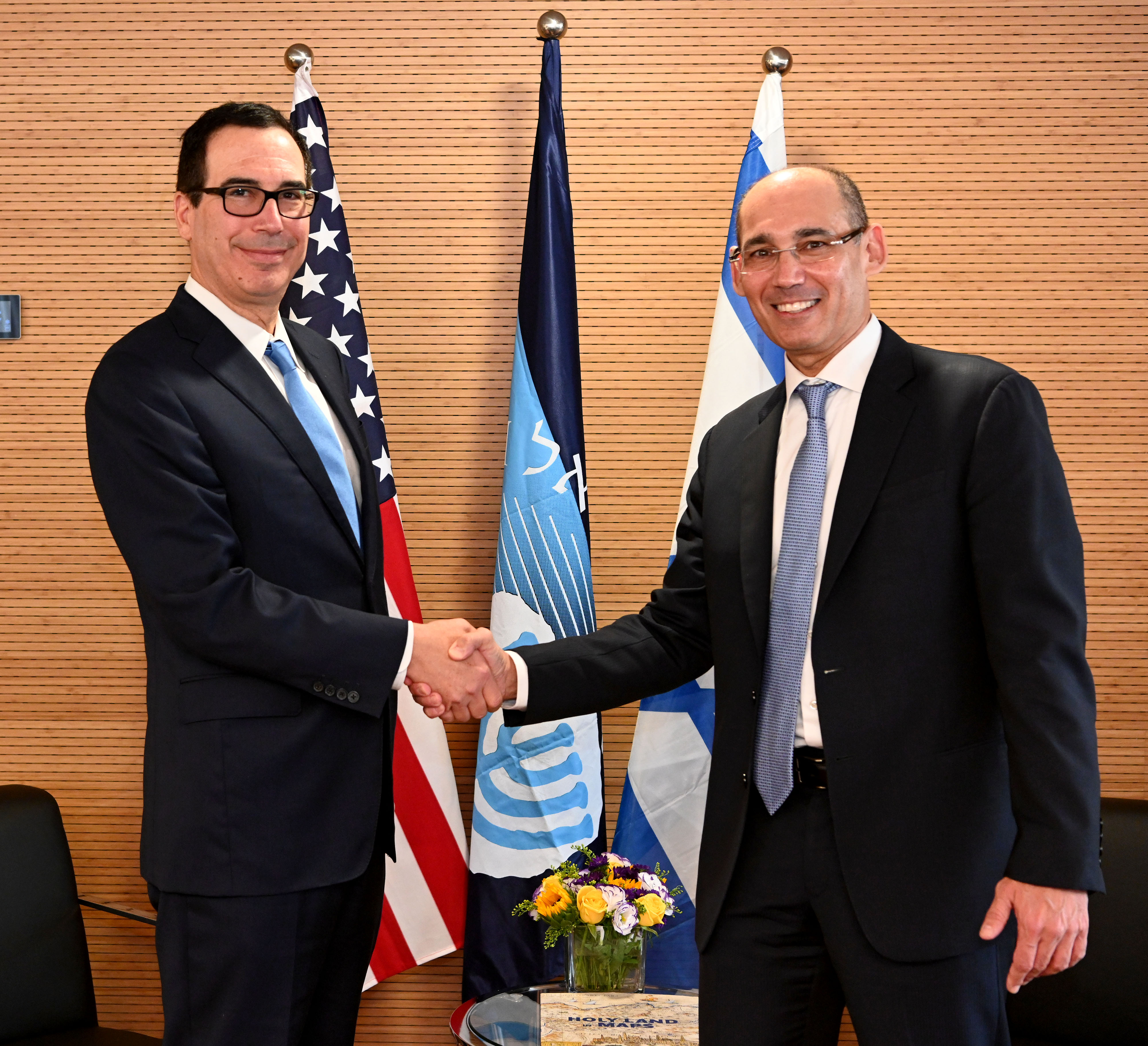 Meeting with Bank of Israel Governor Amir Yaron at Bank of Israel